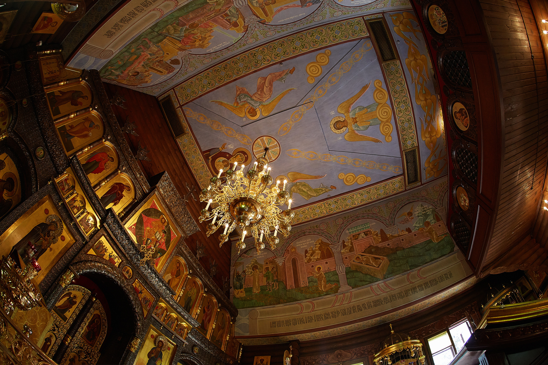 Interior of small wooden church of Saint John the Russian in Kuntsevo, Moscow, Russian Federation